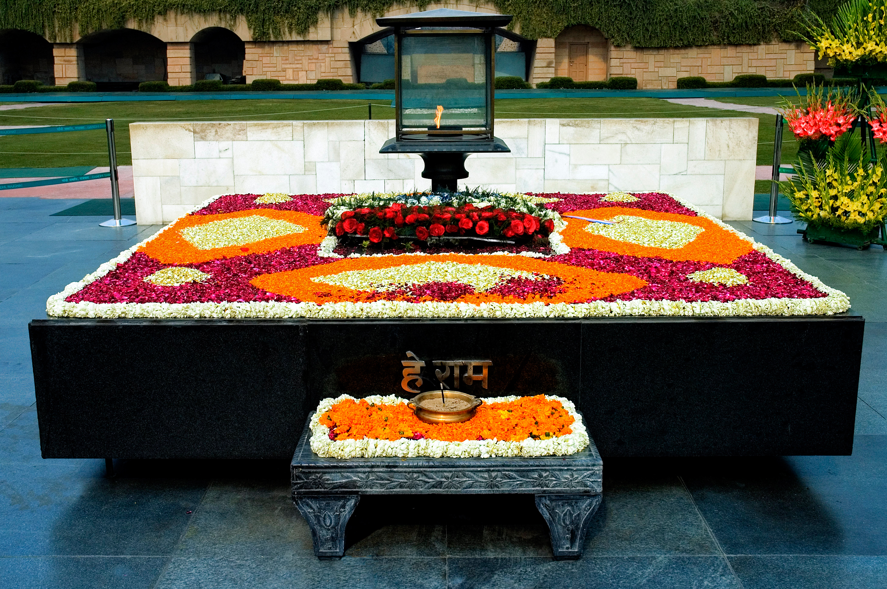 View On Black Raj Ghat, a memorial to Father of the nation - Mahatma Gandhi, is a simple black marble platform that marks the spot of his cremation on 31 January 1948. It is left open to the sky while an eternal flame burns perpetually at one end. It is located on the banks of the river Yamuna in Delhi, India.